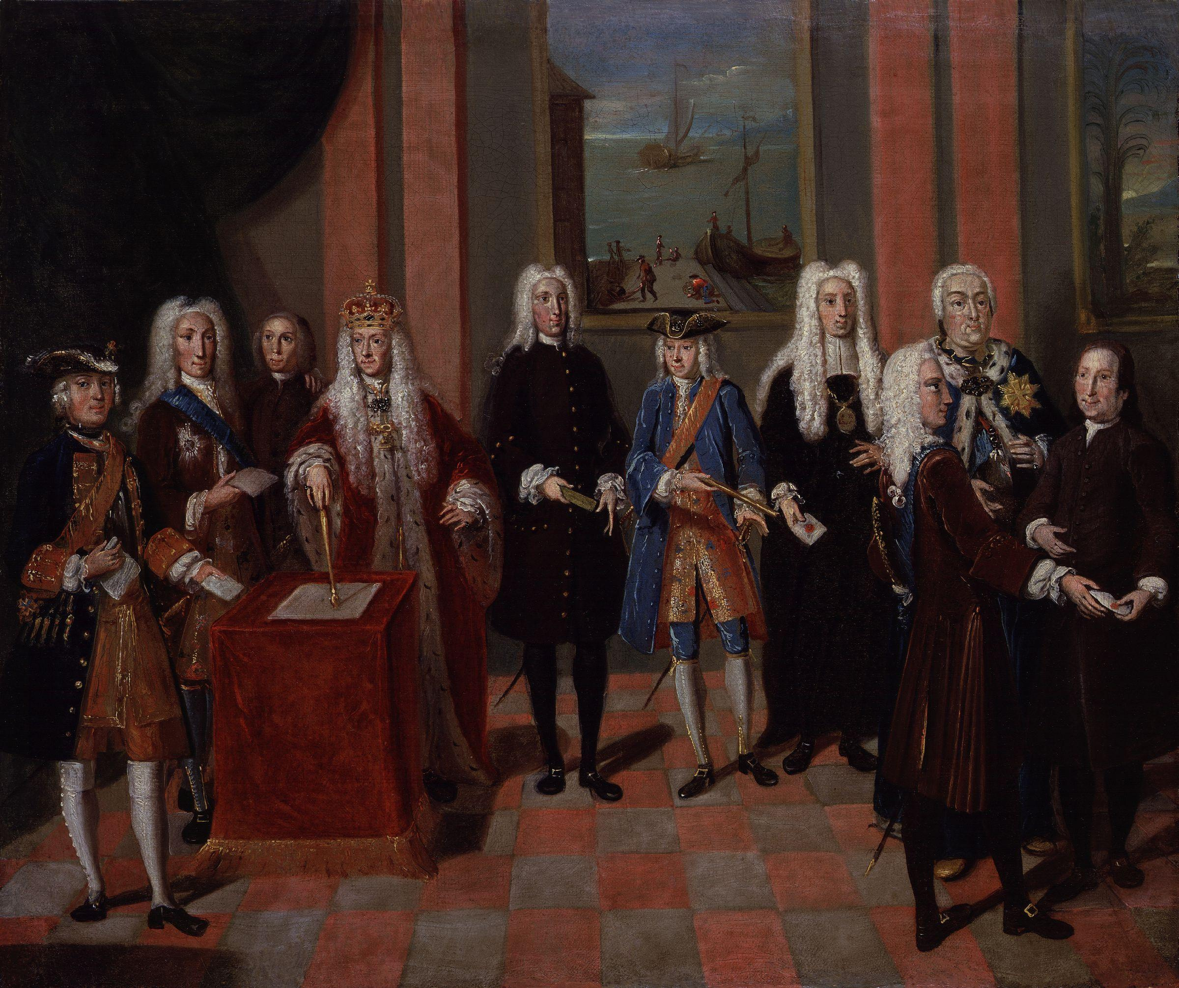 Group associated with the Moravian Church, by Johann Valentin Haidt (died 1780). All images in this batch have been confirmed as author died before 1939 according to the official death date listed by the NPG.